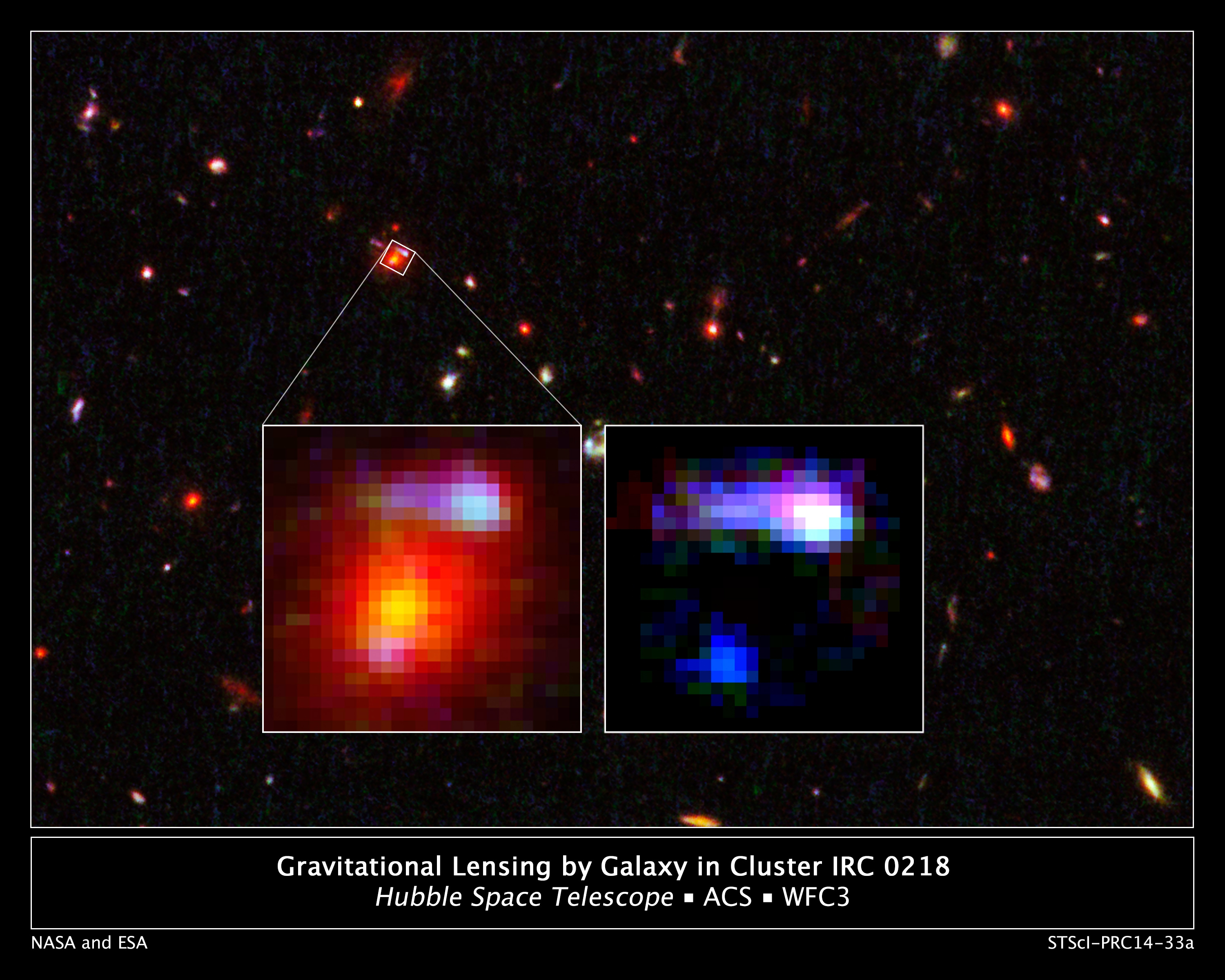 News Release Number: STScI-2014-33 July 31, 2014 10:00 AM (EDT) Hubble Shows Farthest Lensing Galaxy Yields Clues to Early Universe Gravitational Lensing by Galaxy in Cluster IRC 0218 ABOUT THIS IMAGE: These Hubble Space Telescope images reveal the most distant cosmic lens yet found, a massive elliptical galaxy whose powerful gravity is magnifying the light from a faraway galaxy behind it. The giant elliptical is the red object in the enlarged view at left. Its red color comes from the light from older stars. The galaxy is seen as it appeared 9.6 billion years ago and is one of the brightest members in a distant cluster of galaxies, called IRC 0218. The background image shows the entire region surrounding the galaxy. In the enlarged view, the lighter-colored blobs at upper right and lower left are the distorted and magnified shapes of a more distant spiral galaxy behind the foreground elliptical. The giant elliptical is so massive that its enormous gravitational field deflects light passing through it, much as an optical lens bends light to form an image. This phenomenon, called gravitational lensing, magnifies, brightens, and distorts images from faraway objects that might otherwise be too faint to observe even with the largest telescopes. Astronomers needed spectroscopy to determine that the blobby features were two images of the same distant galaxy, located 10.7 billion light-years from Earth. In the enlarged view at right, astronomers have subtracted the image of the giant red elliptical to show the more distant spiral galaxy. The glow of young stars makes the galaxy appear blue. The white area at upper right is probably a region of star formation. The images were made by combining visible-light observations from the Advanced Camera for Surveys and near-infrared exposures from the Wide Field Camera 3.